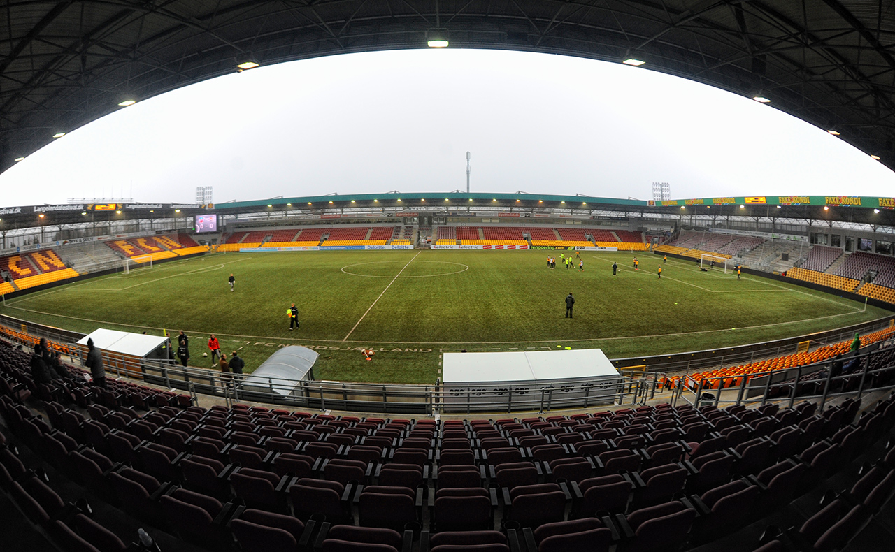 Farum Park Stadium in Farum, Denmark